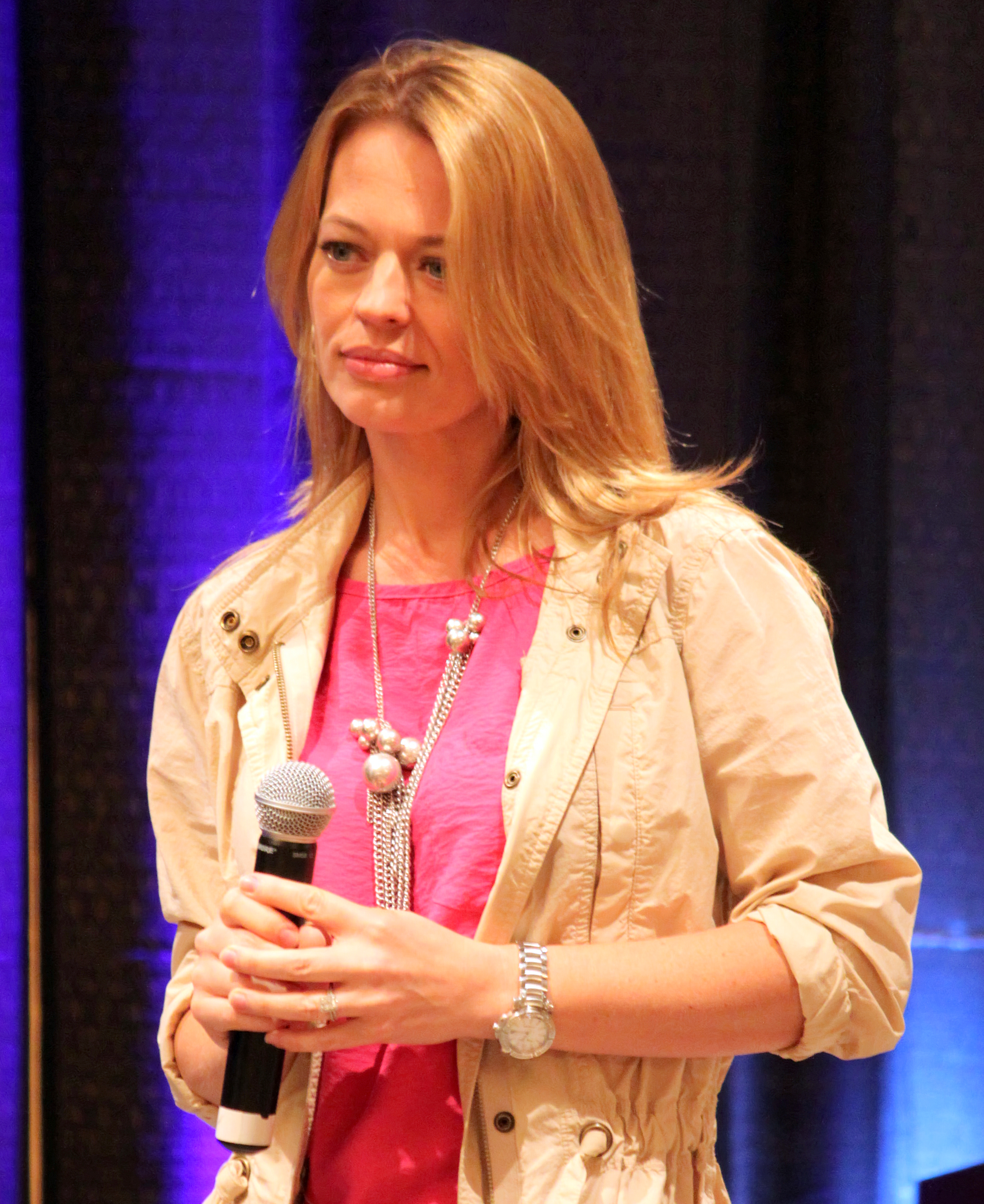 Jeri Ryan at the 2010 Creation Star Trek Convention at the Hilton Hotel in Parsippany, New Jersey.